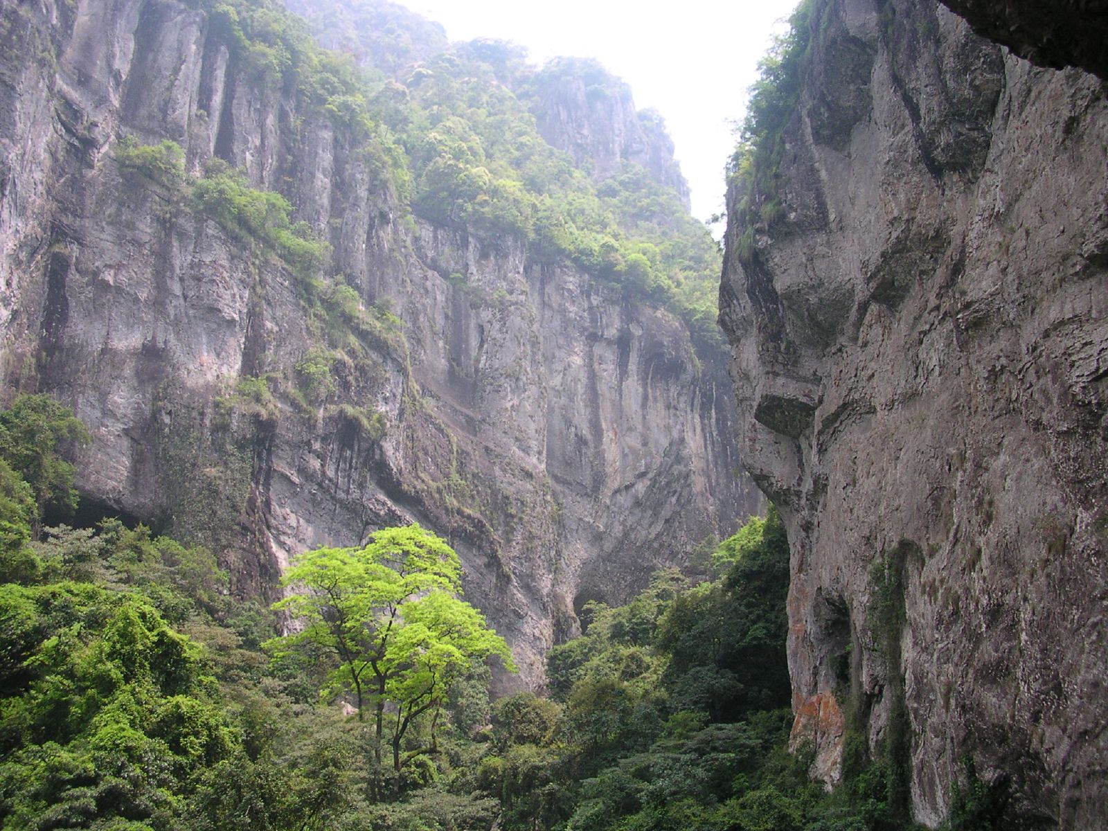 Qingyunshan Mountain in Yongtai, Fuzhou, Fujian